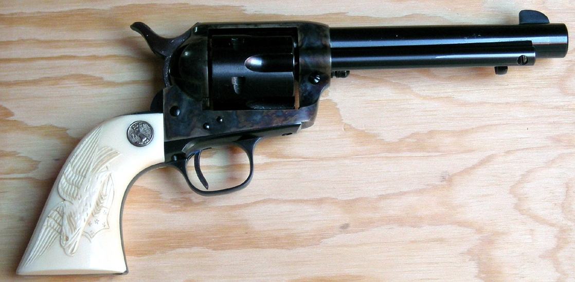 Colt SAA, Ivory stocks, flag and eagle carving